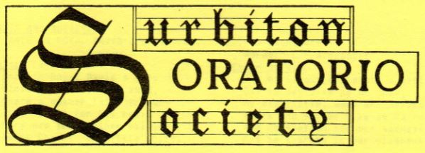 Logo of Surbiton Oratorio Society, the original name of Kingston Choral Society